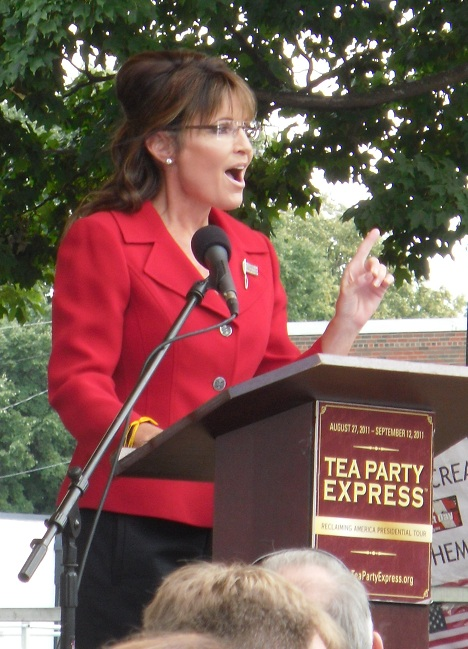 Sarah Palin addresses a Labor Day rally sponsored by the Tea Party Express (Manchester, September 5, 2011)